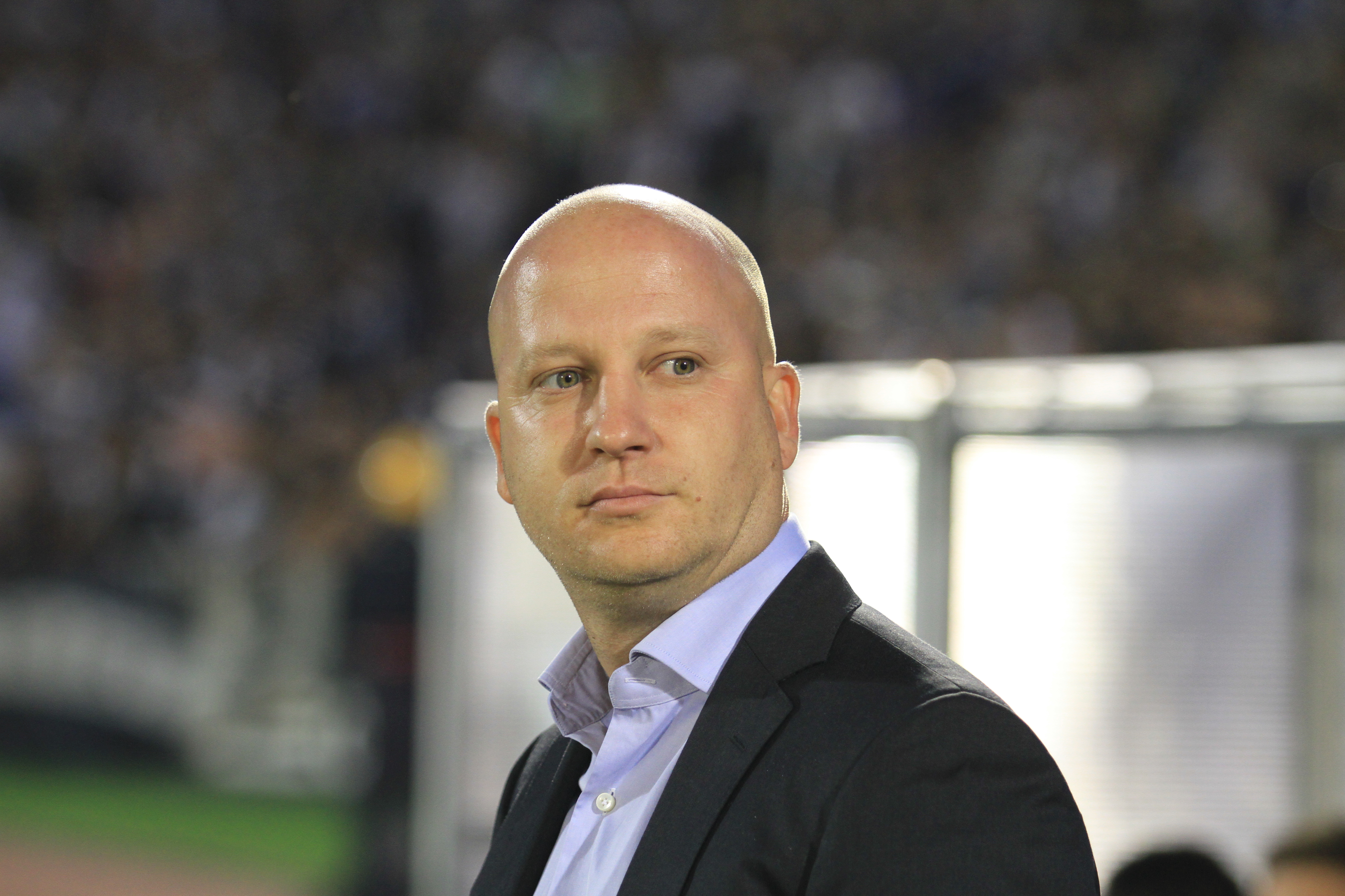 Marko Nikolić - Serbian football manager who last managed Hungarian club Fehérvár.